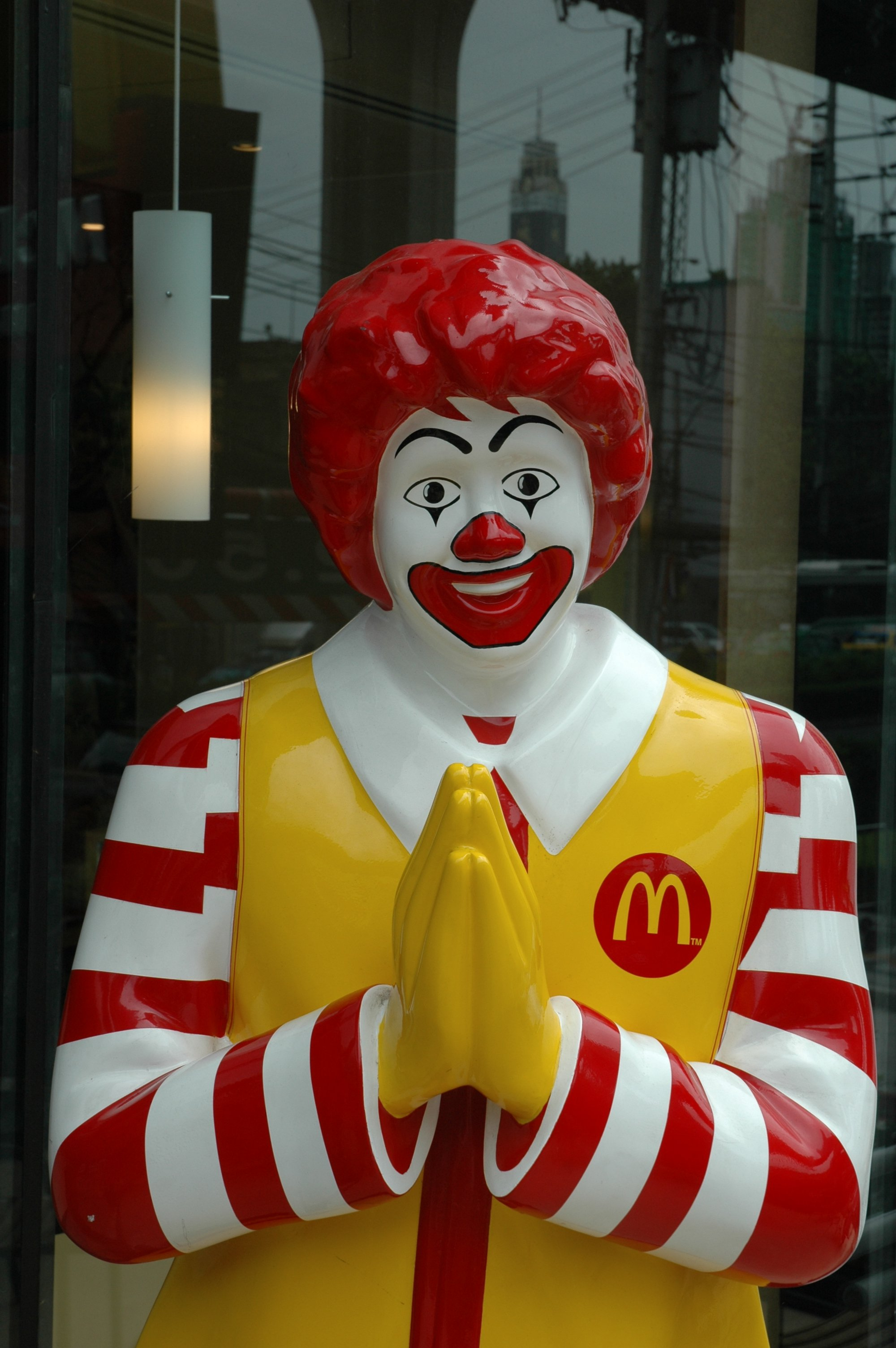 Ronald McDonald goes Thai style.